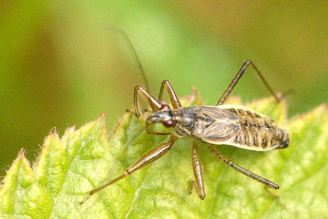 Nabis ericetorum unknown nabis-species. most likely Nabis limbatus or Nabis flavomarginatus from Commanster, Belgian High Ardennes .